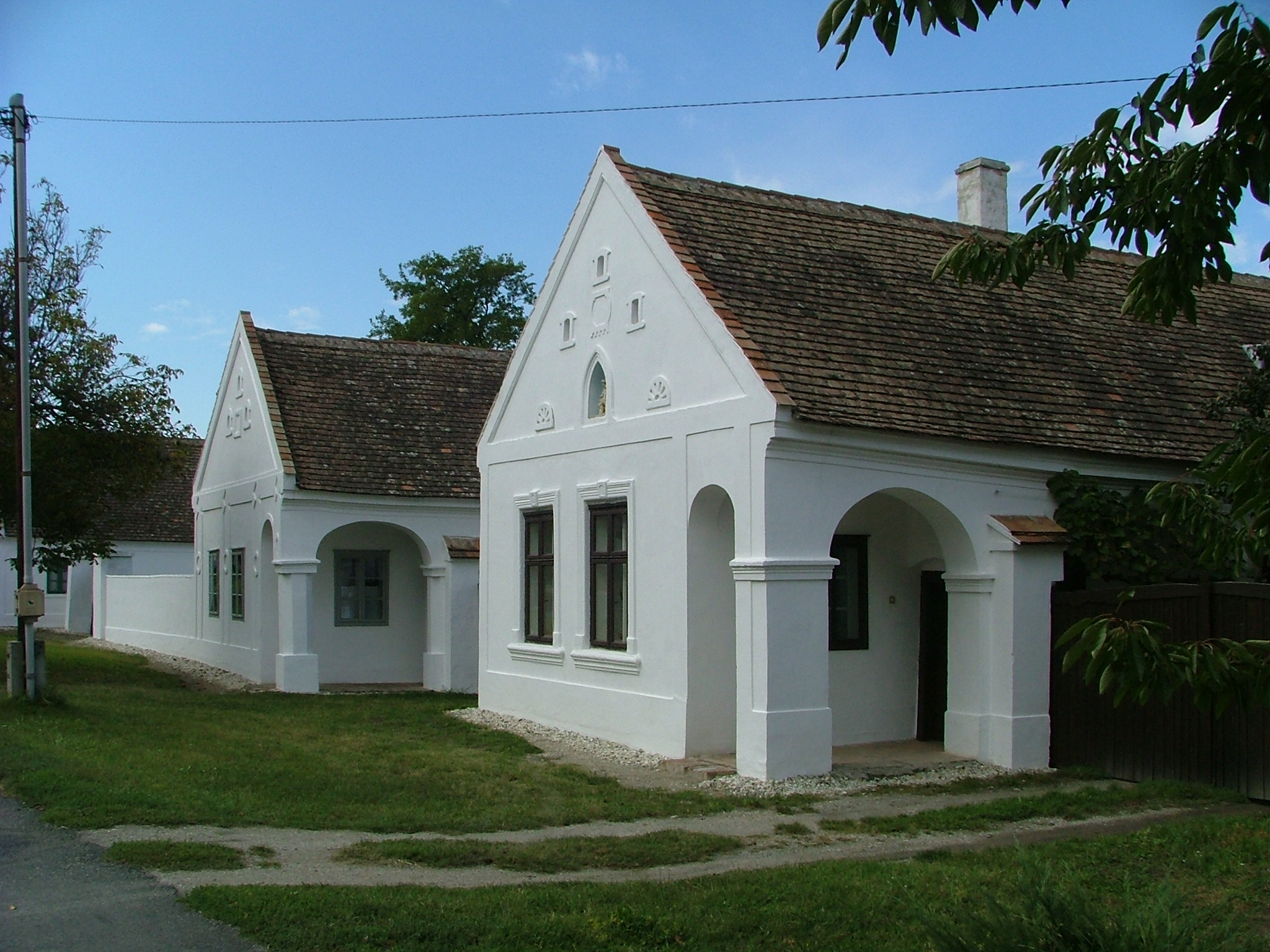 Fertőszéplak, traditional houses, part of the UNESCO World Heritage This is a photo of a monument in Hungary, Identifier: 4141 This is a photo of a monument in Hungary, Identifier: 4142